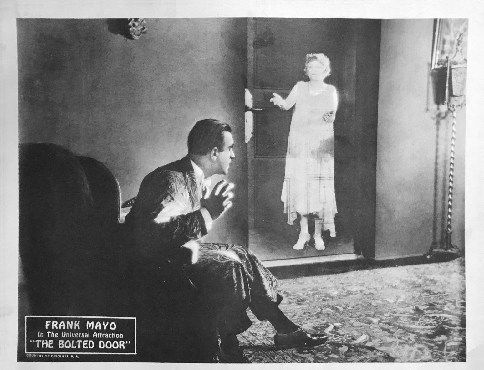 This is a lobby card for the American silent drama film The Bolted Door (1923).